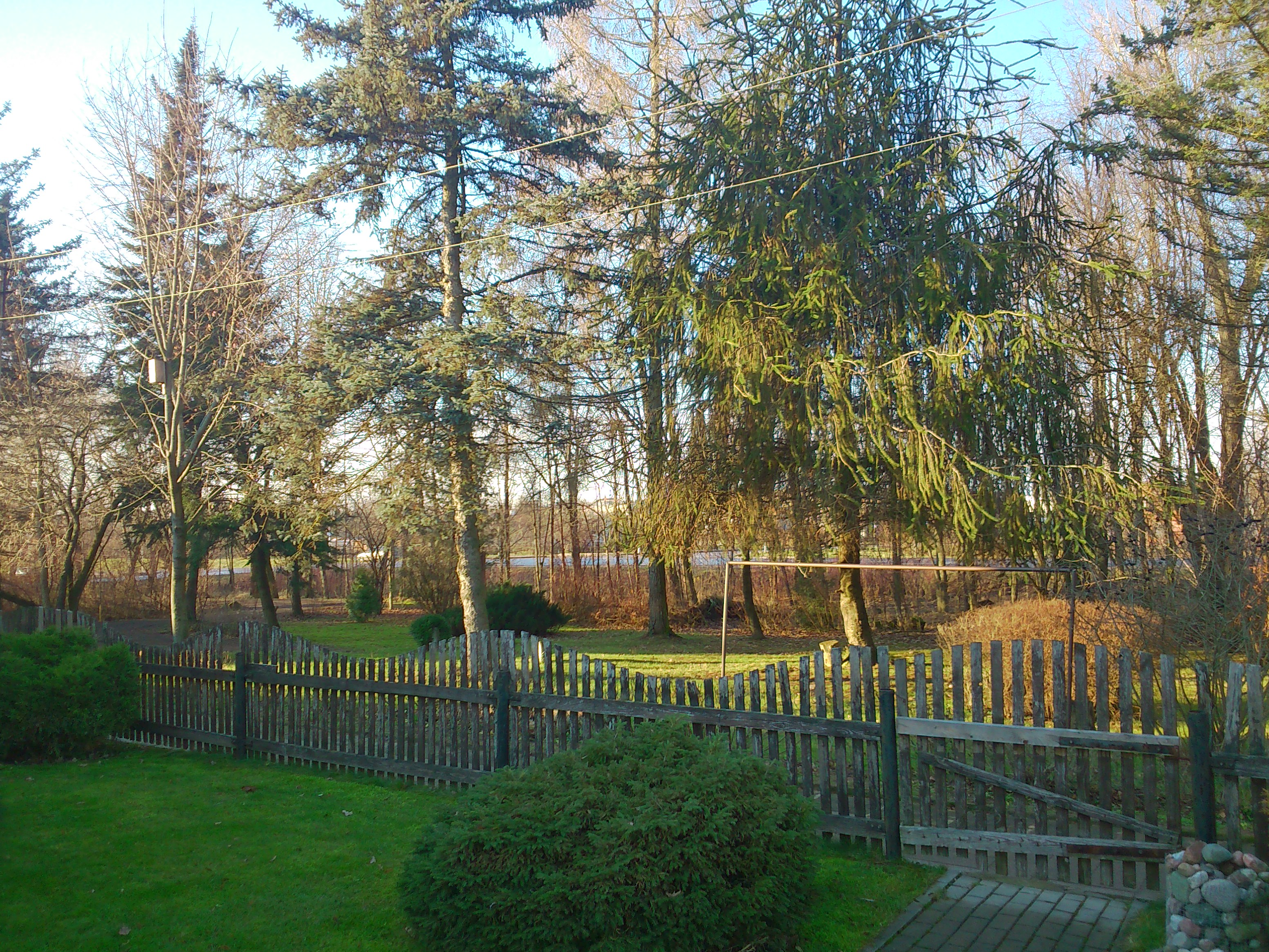 Miskininku Street 4 Jonava, LT